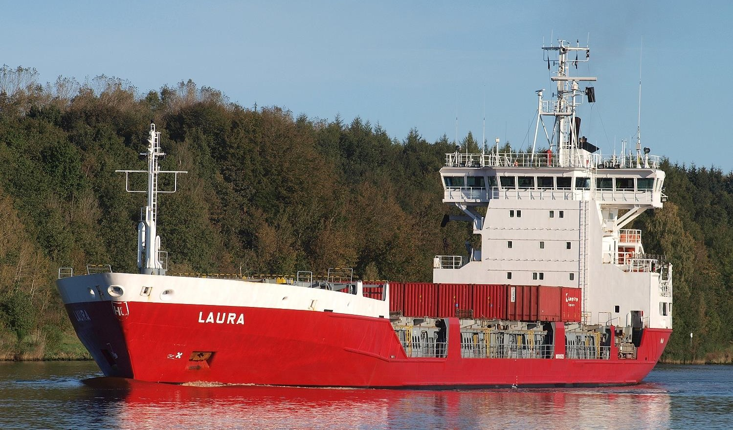 General Cargo ship LAURA (IMO 9126223) built at Schiffswerft J. J. Sietas, Hamburg-Neuenfelde (yard № 1117, launched: 24-07-1996, delivered: 30-08-1996), Kiel Canal 13-10-2011, photo by Jens Dohrn.